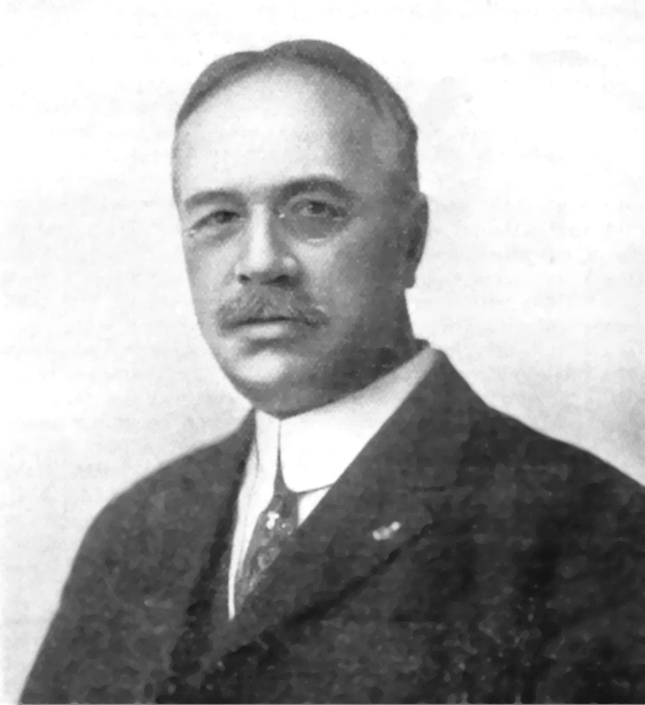 Dr. George Edward Fell (1850 - 1918) was surgeon and inventor. He was an early developer of artificial ventilation and also investigated the physiology of electrocution, a line of research that led to Fell creating the final design for the first electric chair.